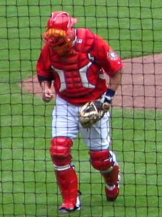 Matt LeCroy of the Washington Nationals returns to his spot behind the plate after visiting Mike O'Connor on the mound during a game at RFK Stadium in Washington against the Pittsburgh Pirates in 2006.